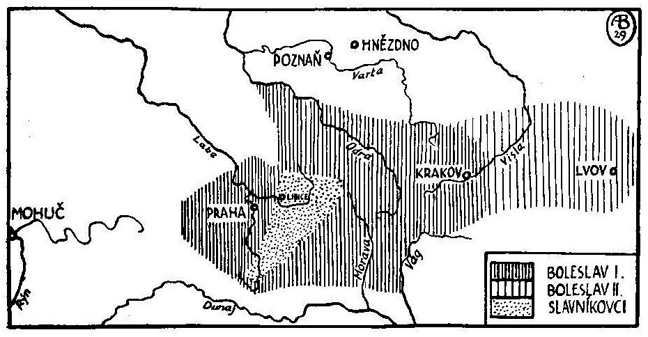 Map showing Czech state in the 10th century under Boleslav I. and Boleslav II.